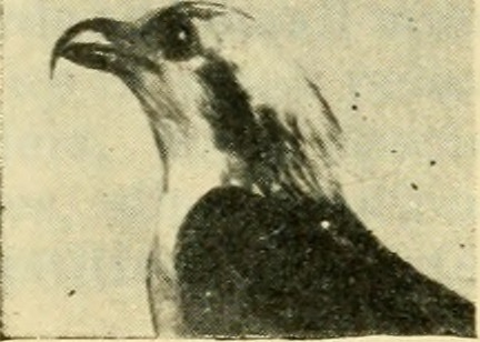 Identifier: babybirdfinderby12rich Title: Baby bird-finder ... by Harriet E. Richards and Emma G. Cummings .. Year: 1904 (1900s) Authors: Richards, Harriet E Cummings, Emma G Subjects: Birds Publisher: Boston, Mass., W.A. Butterfield Contributing Library: Smithsonian Libraries Digitizing Sponsor: Smithsonian Libraries Text Appearing Before Image: otted with black on sides; black patches on cheeks and sides of throat. Fe=male and Immature. Similar, but the reddish brown back is uniformly barred with black and the breast streaked with brown. Perches in an exposed situation overlooking a stretch of land to watch for its prey ; has a habit of hov-ering over a suspected victim before pouncing upon it. Note. Kilty t killy, killyNest. In hole in tree, in open land, on a farm. Breeds. Locally throughout. Common spring and fall migrant. 112 J 304. Pandion haliaetus carolinensis AMERICAN OSPREY. 23.iO inchesMale. Above dark brown, head white striped with brown, broad stripe from eye to back of neck. Below white; i bill black. Female. Similar, but breast spotted ! with brown. Also called Fish Hazvk. It feeds on fish, plunging headlong from a great height into the water to seize its prey. A pair use the same nesting place a number of years. Nest. Bulky, in solitary tree near large body of water. Breeds. Throughout.